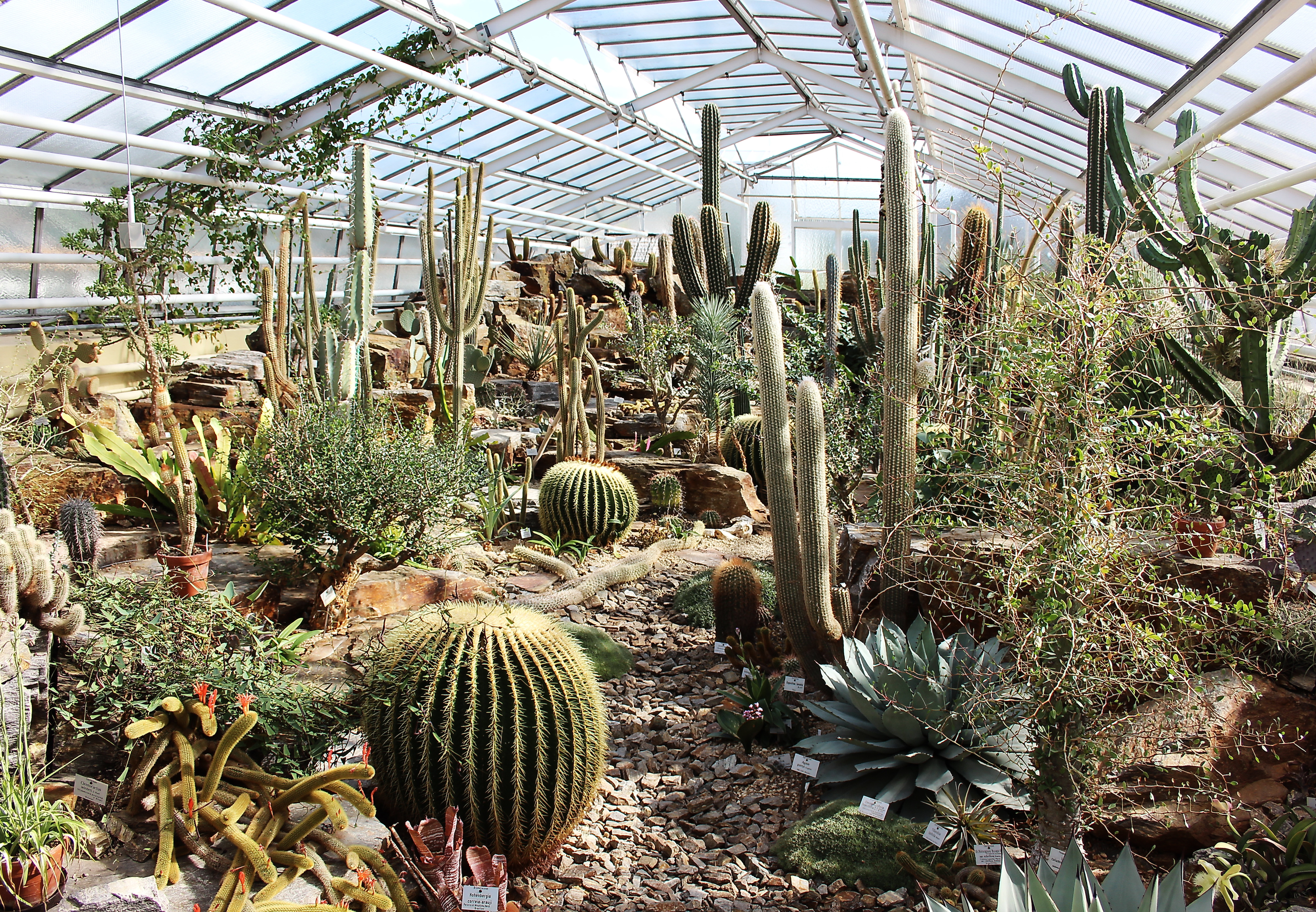 Greenhouse with cacti in botanical garden in Munich